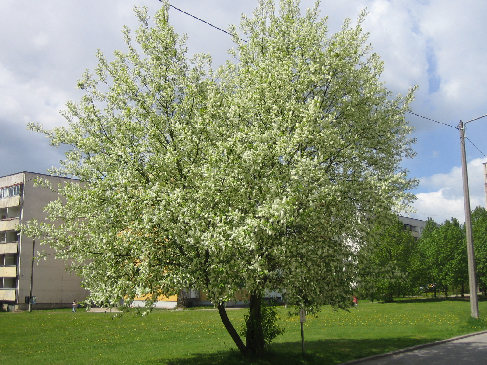 Padus avium is flowering in Annelinn Quarter of Tartu